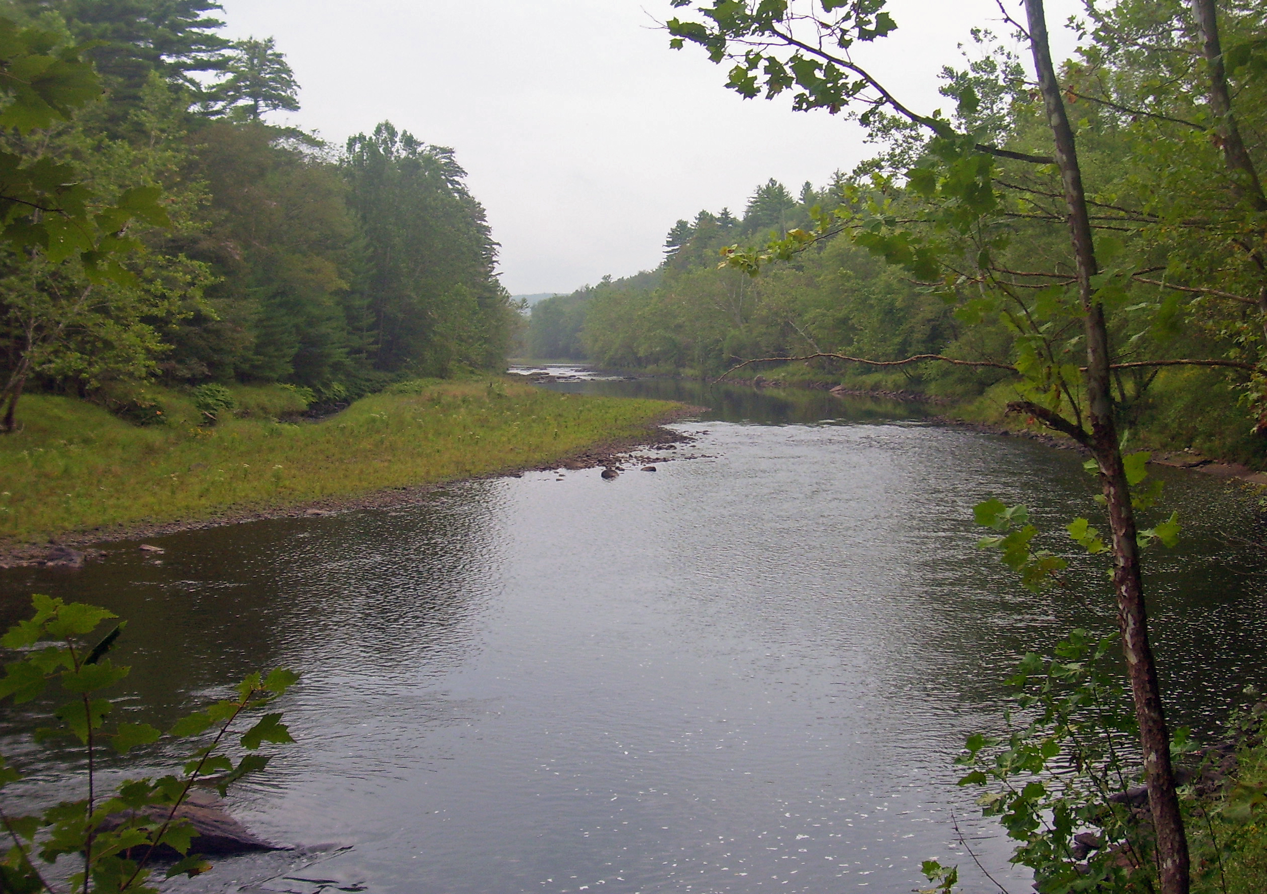 Lackawaxen River a few miles above its mouth, in Lackawaxen Twp., PA, USA